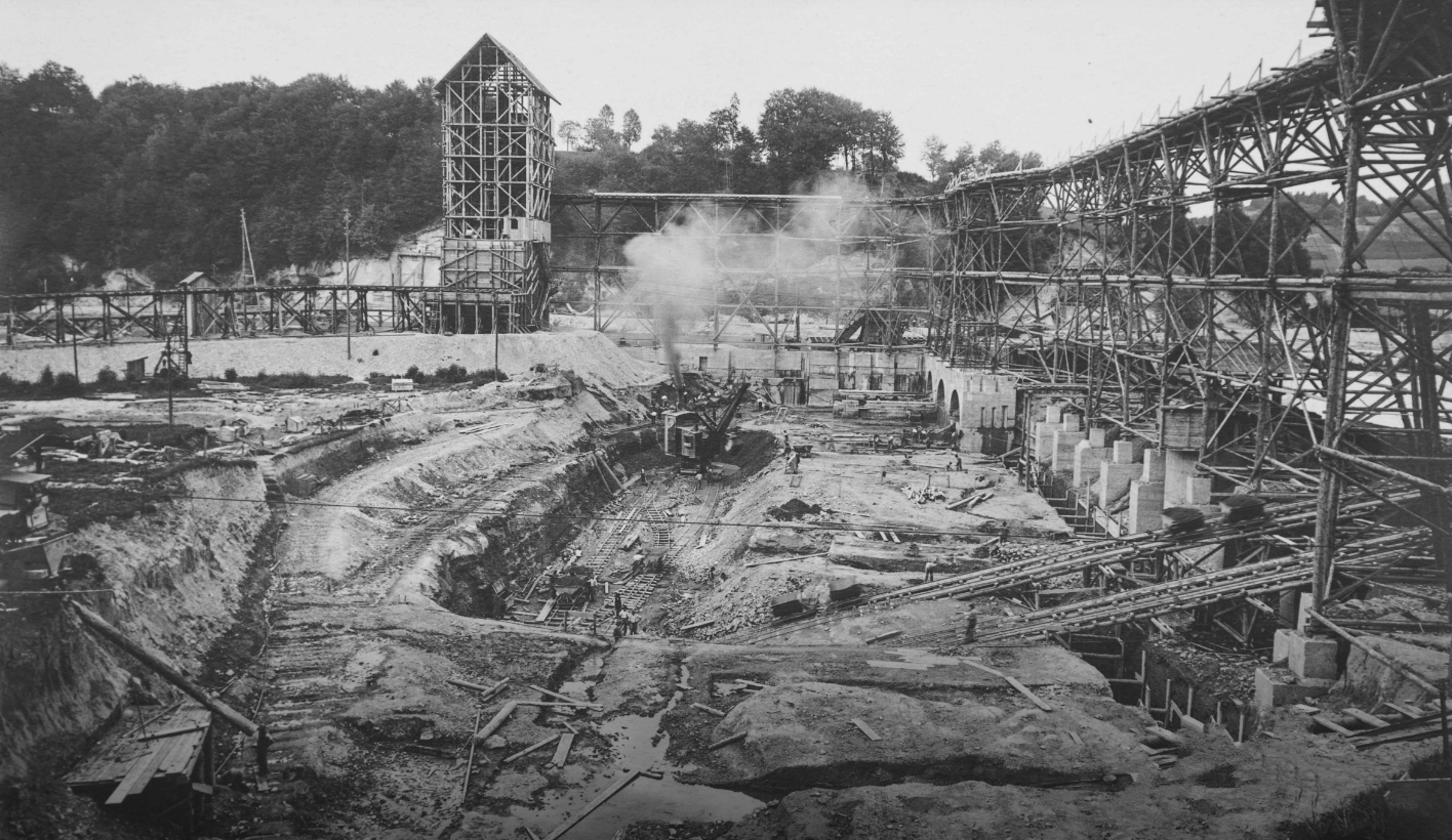 Construction site of hydro power plant Mühleberg in Canton Bern